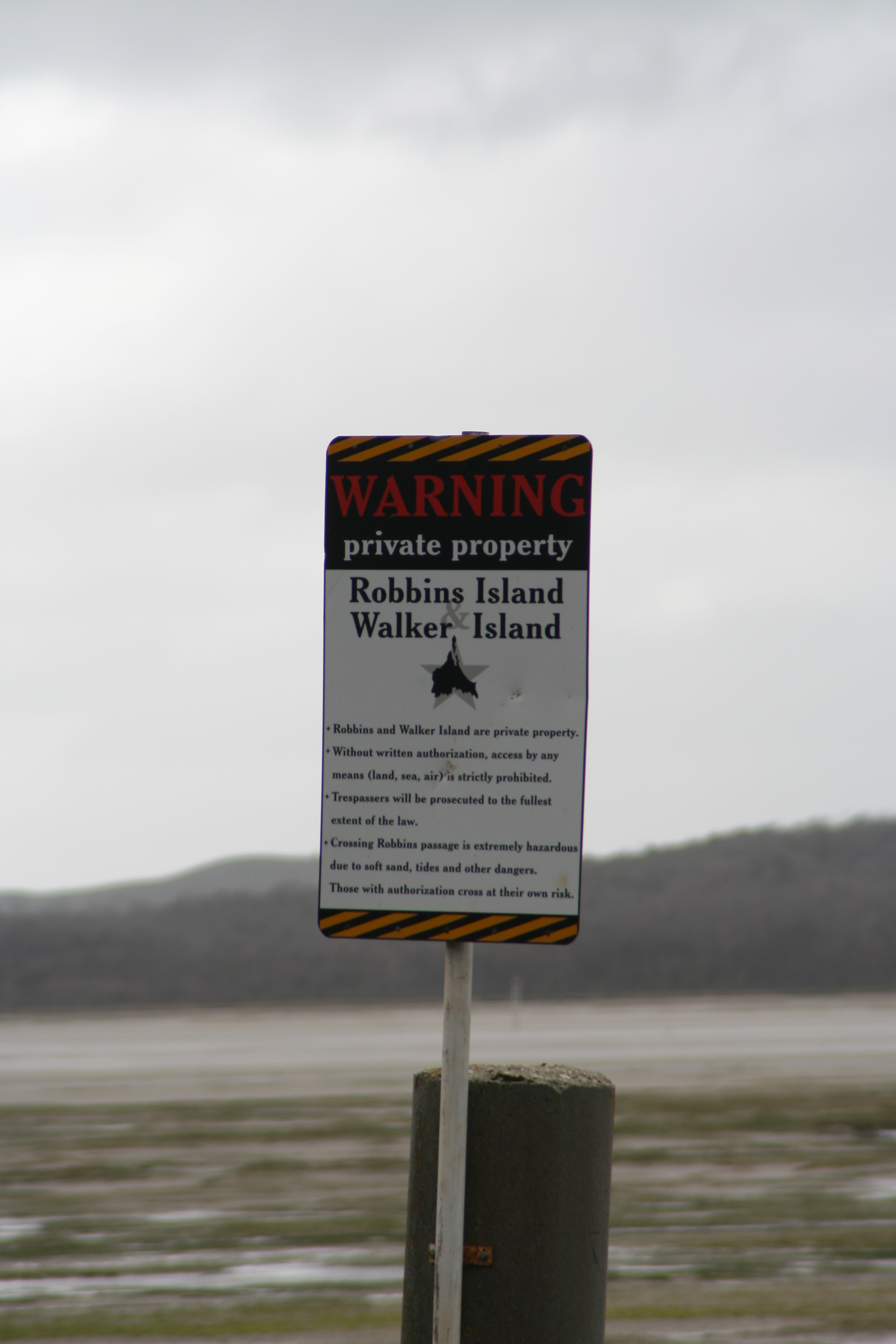 Sign at crossing to Robbins Island, on Tasmanian mainland, north of Montagu.